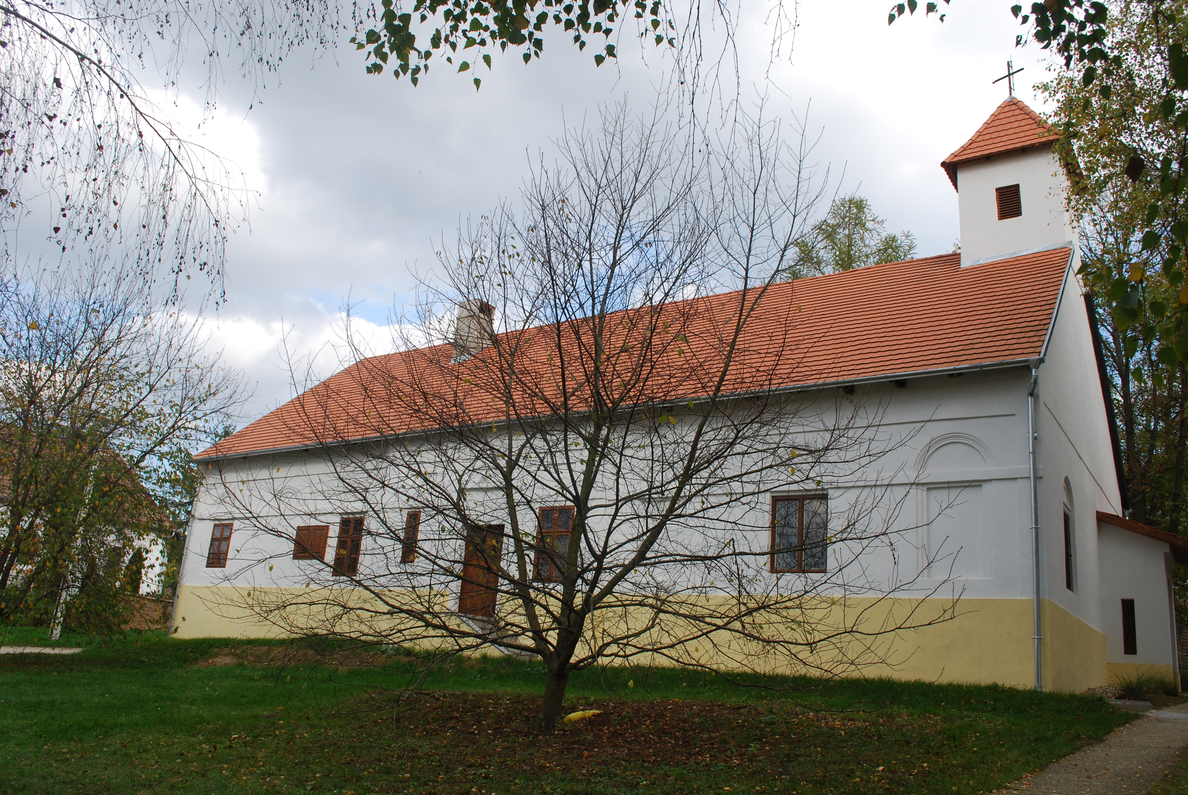 Erőss family's former country house in Felsőmocsolád, now Roman Catholic Church.